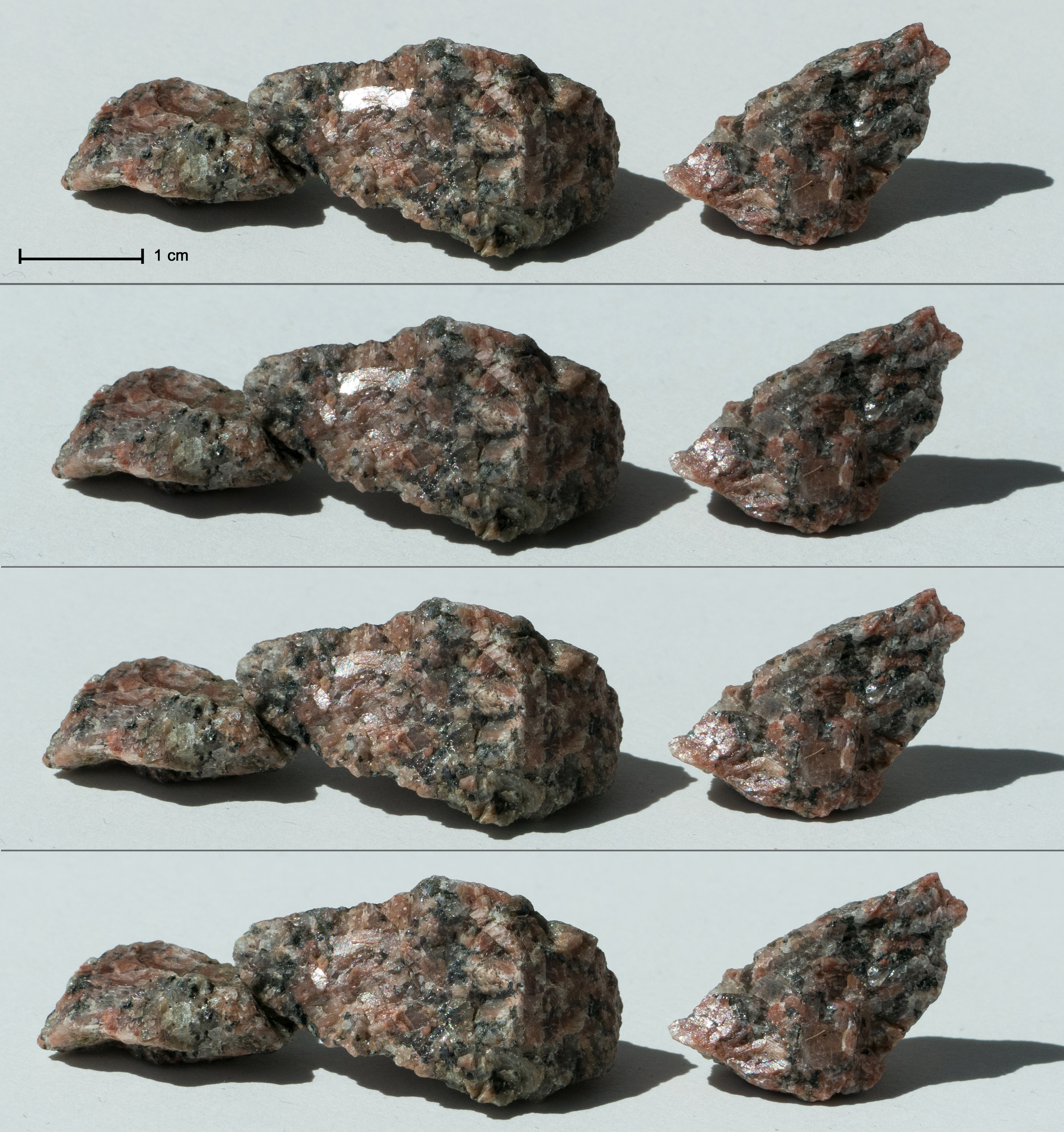 Samples of red granit from Lysekil. The granite is noted for its color and large glittering feldspar and mica crystals (about 10 x 10 mm) that make any part of the stones glitter when the sun reflects off them. The red granite was especially coveted during the first half of the 20th century and used as building material all over Europe. The picture illustrates how light, at different angles, is reflected off the feldspar crystals in the rock.